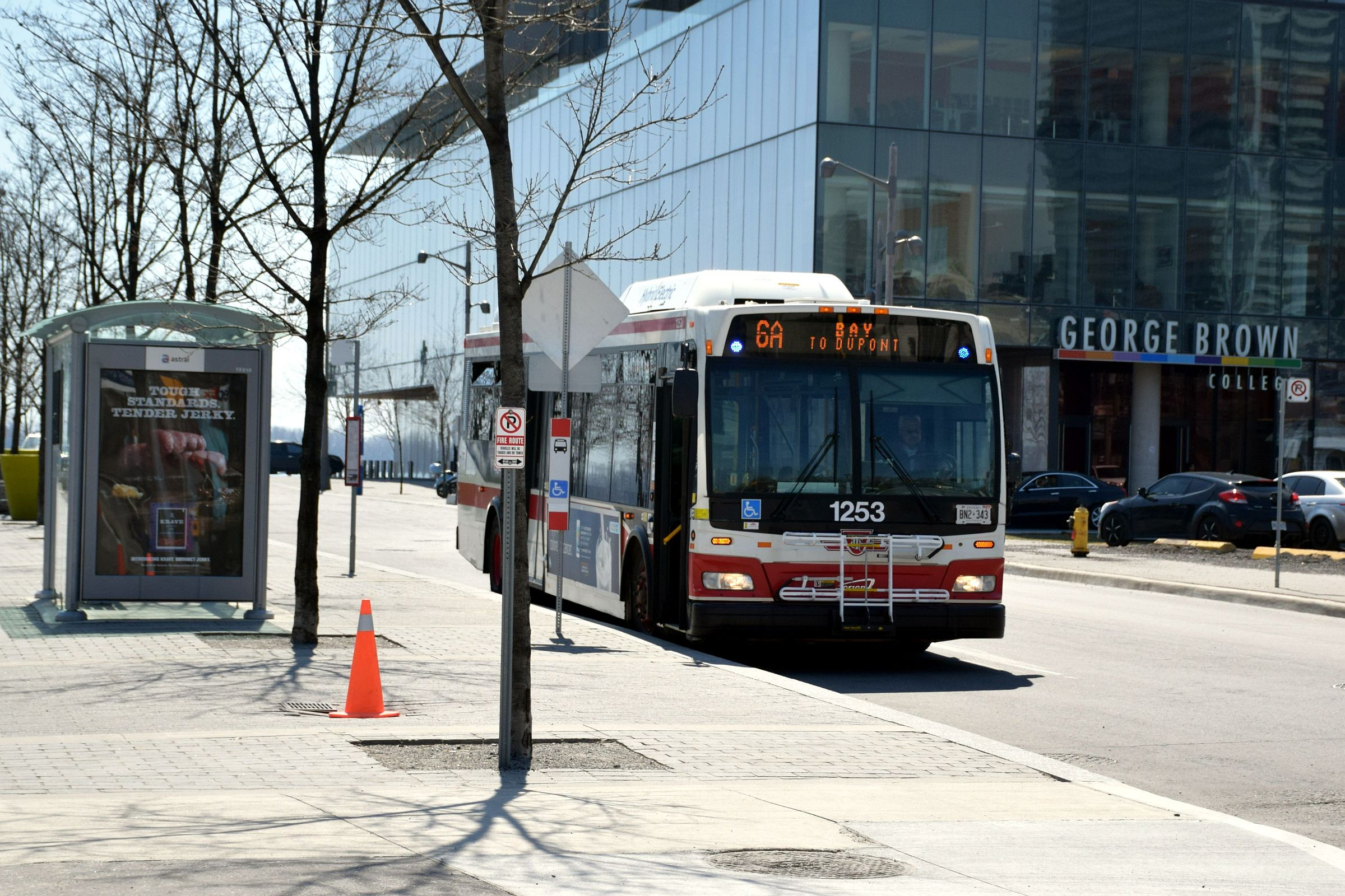 TTC route 6A BAY terminates at the George Brown College Waterfront Campus